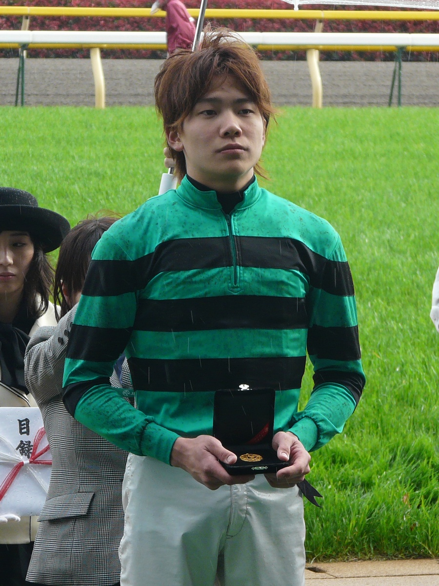 Kosei-Miura20110423